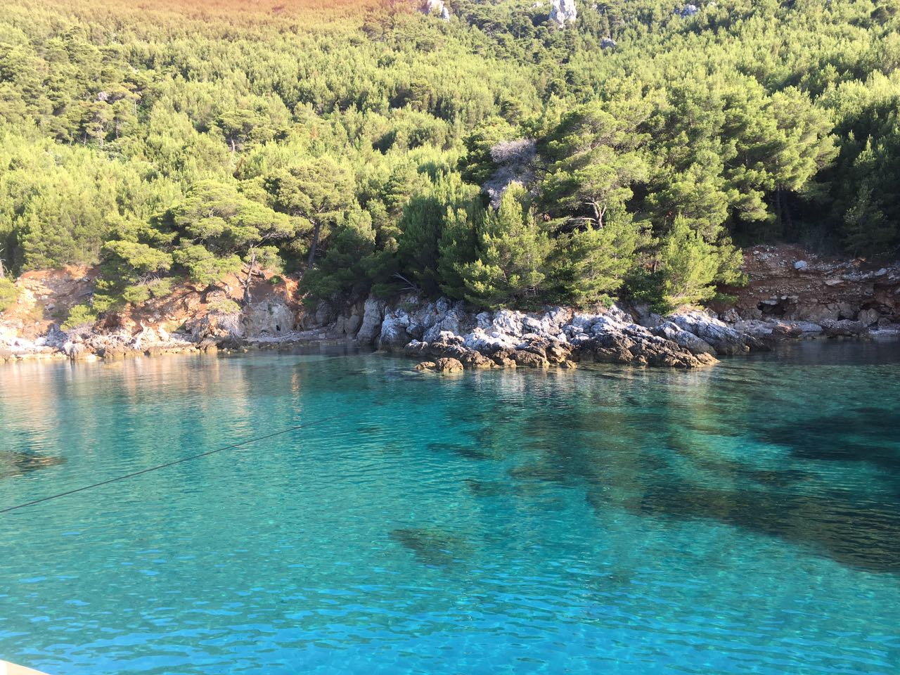 National park Mljet, nature in it's purest form.